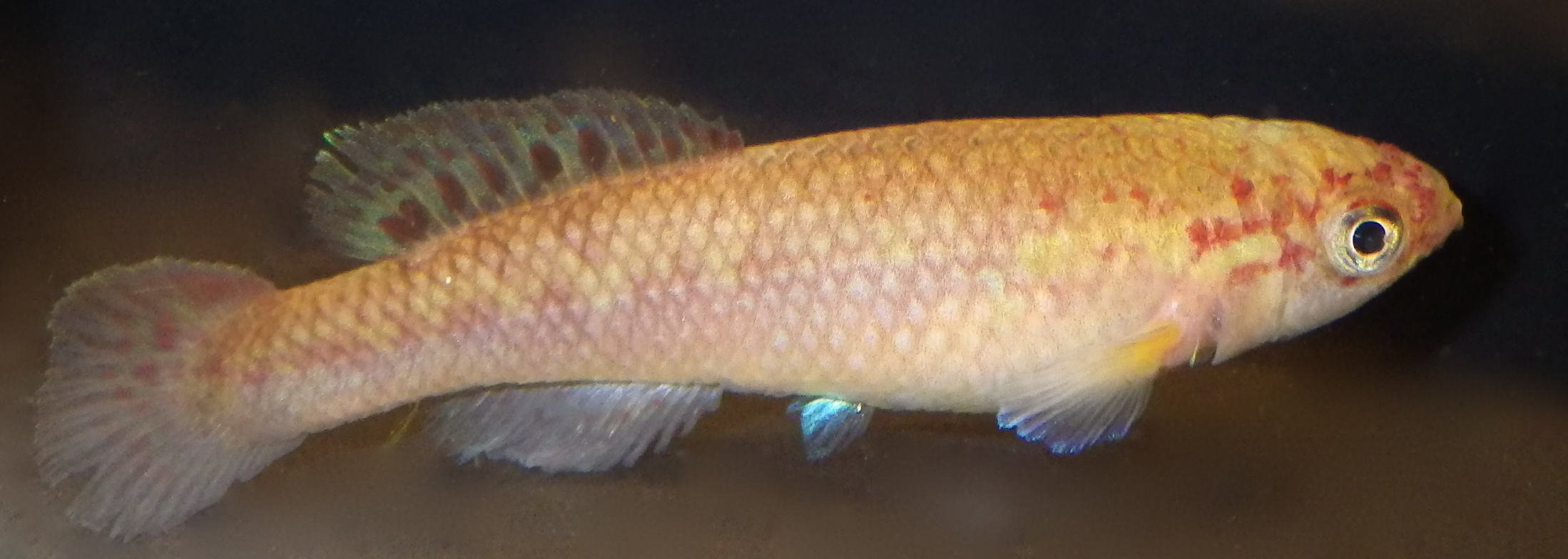 Female Callopanchax occidentals ("Golden Pheasant") -- ancestral collection location Teme Yella SL89 DRCH